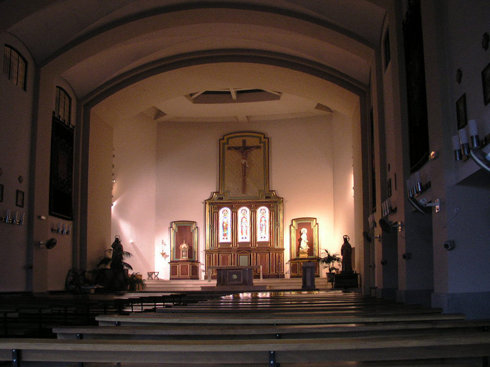 Iglesia principal, El Pardo, Madrid. Interior. The photo was taken by Håkan Svensson (Xauxa) the 22nd of December 2003.